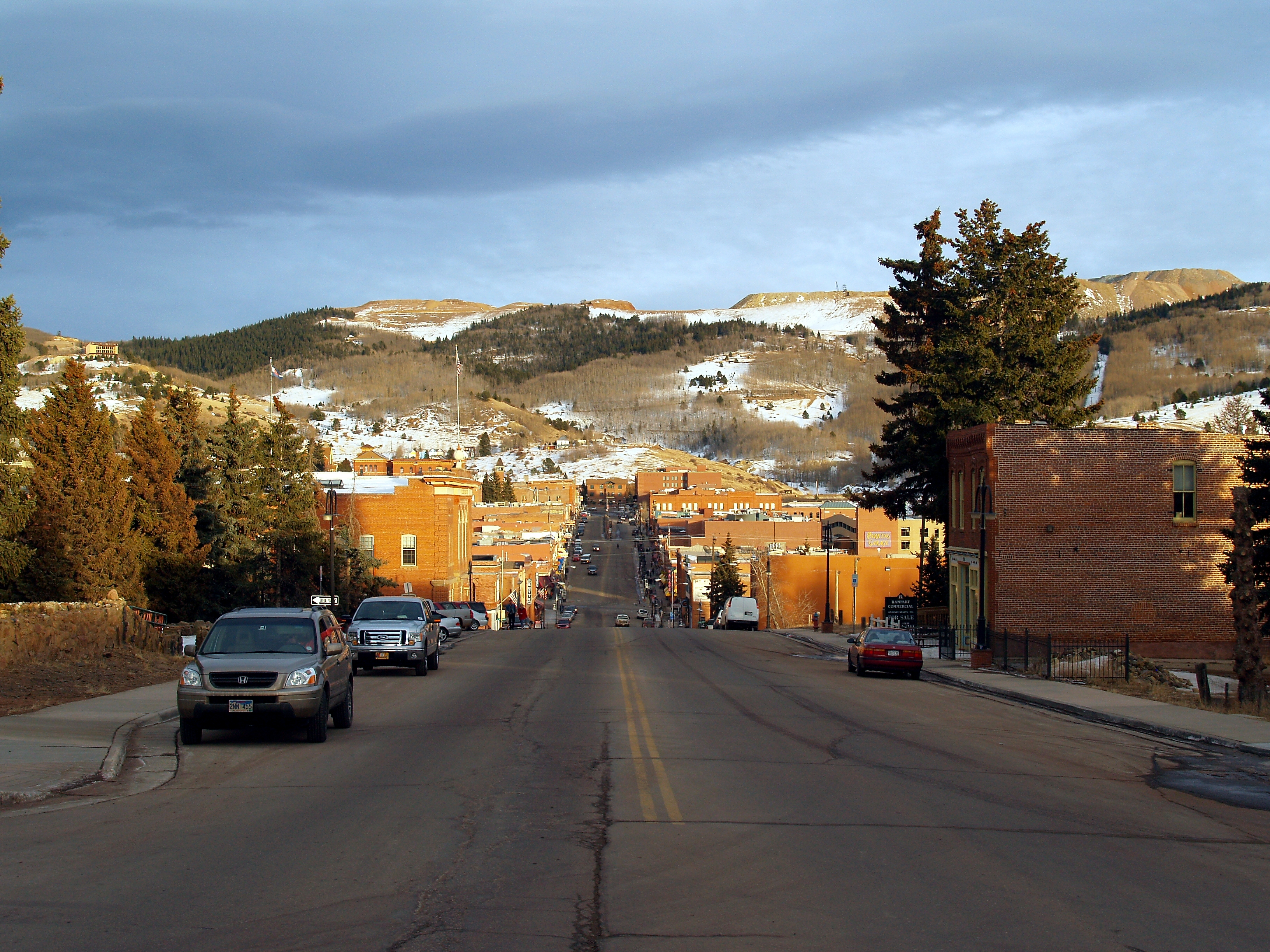 Looking East from Bennett Avenue